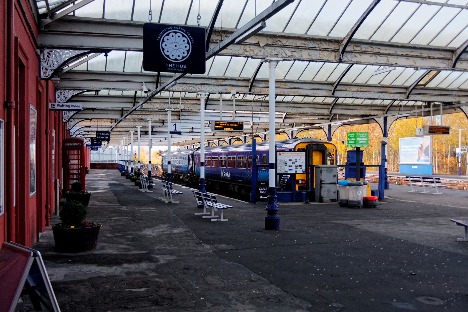 Station platforms at Kilmarnock railway station